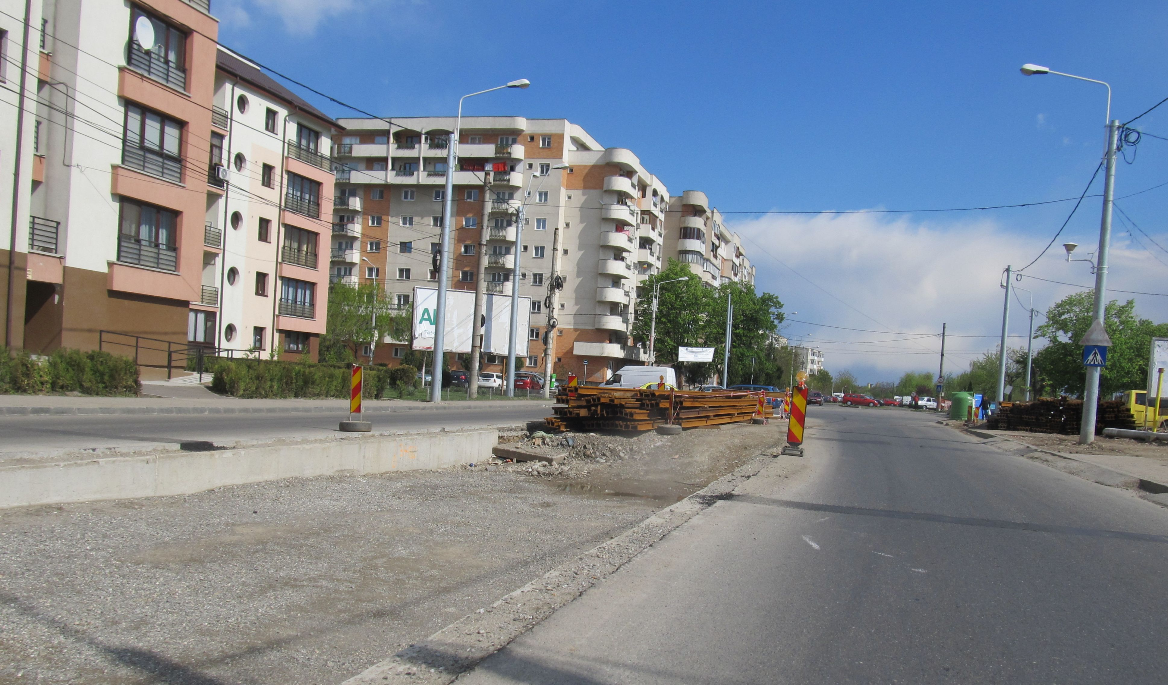 Reconstruction of tram tracks in Ploiești, Romania, April 2015. Picture taken near Ploiești West railway station.